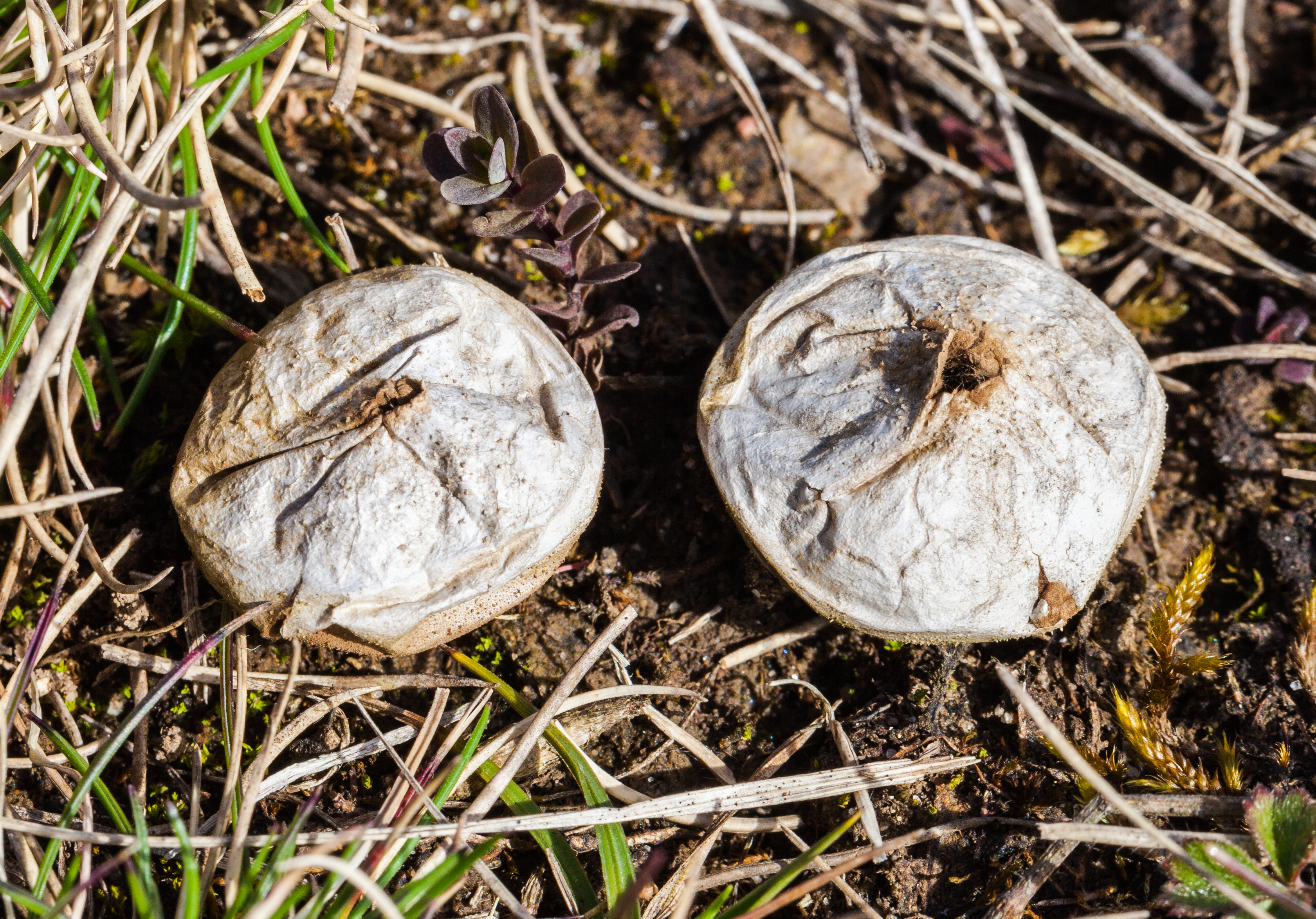 Common puffball (Lycoperdon perlatum), Hartelholz, Munich, Germany